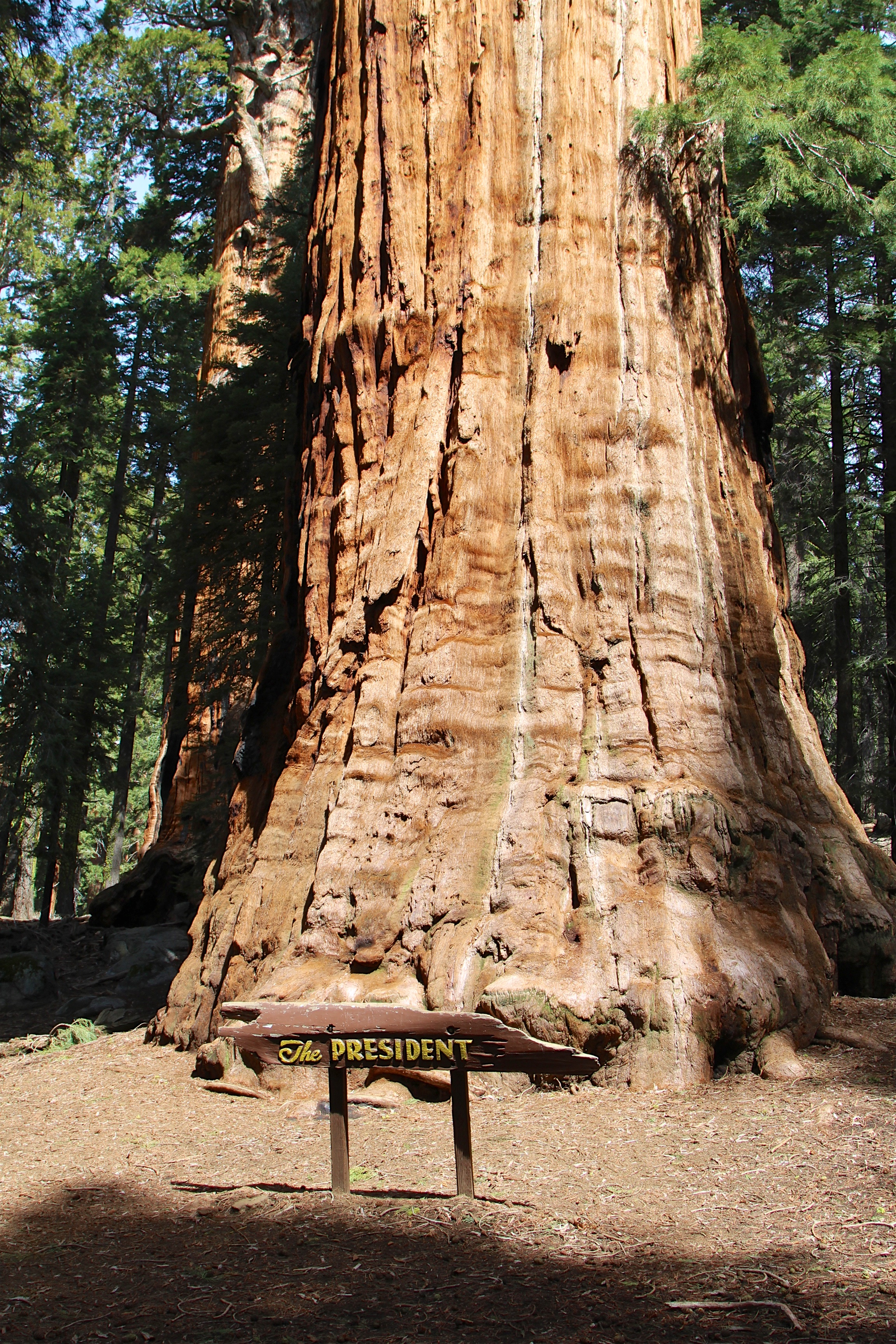 The President Tree of Giant Forest Grove in Sequoia National Park. The Chief Sequoia Tree can be seen in the background.